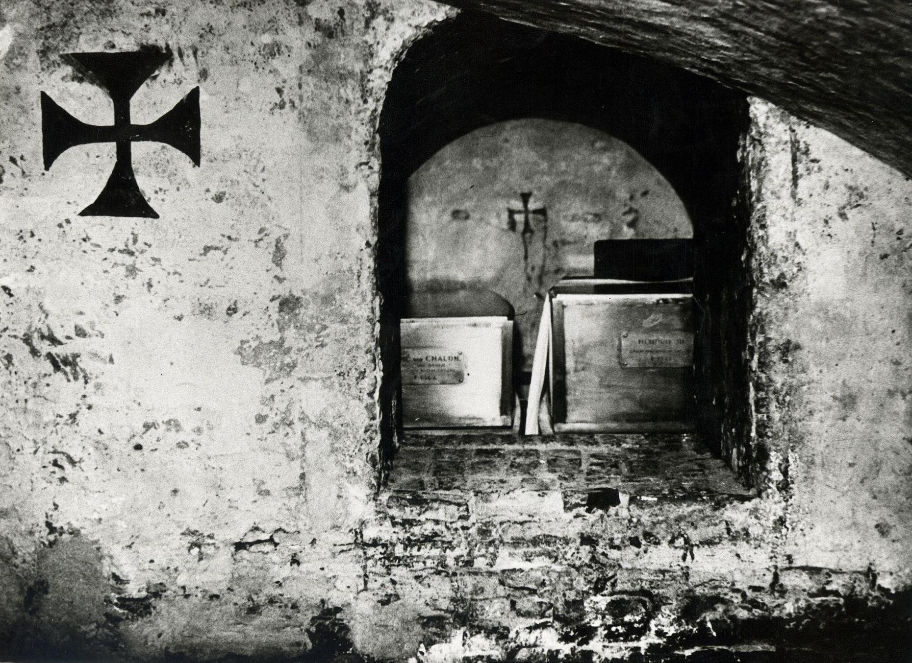 Contents of Tomb of Engelbrecht II